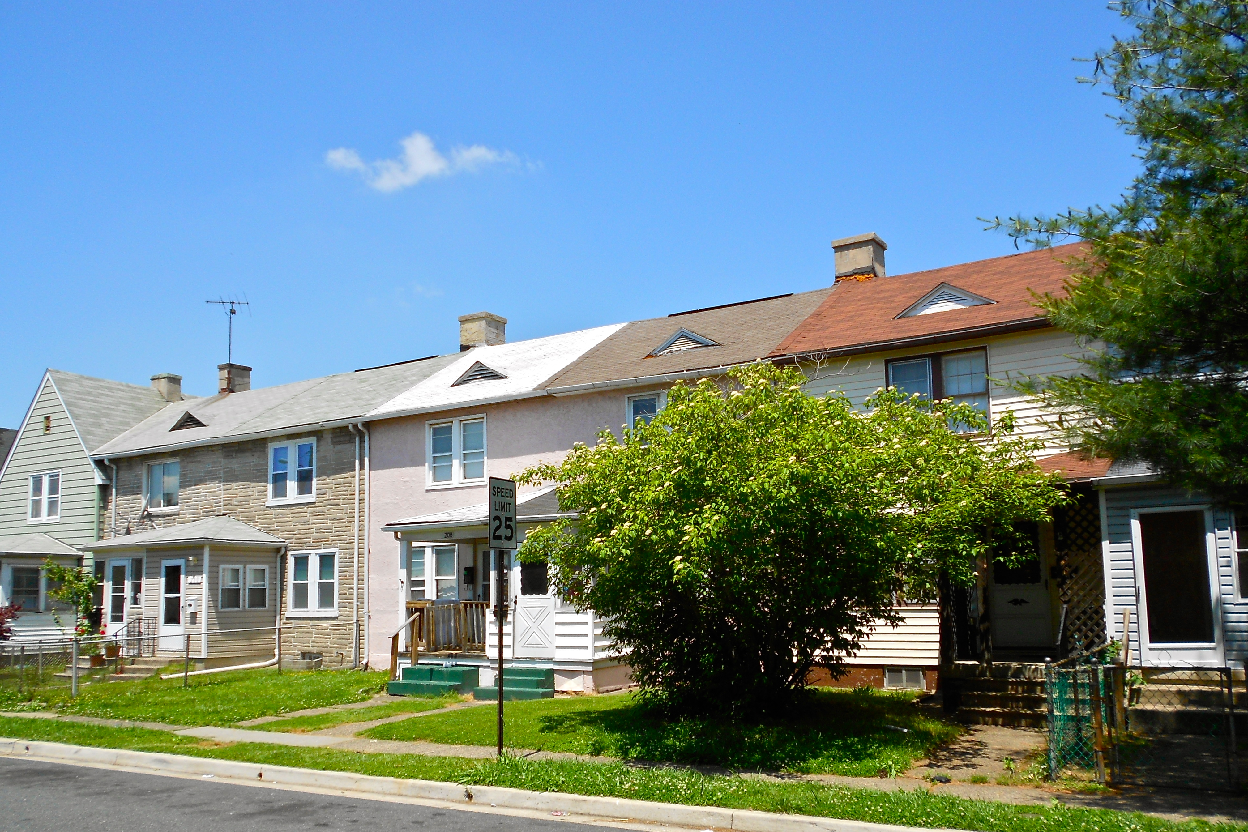 Houses in the Dundalk Historic District in Baltimore. Listed on the NRHP